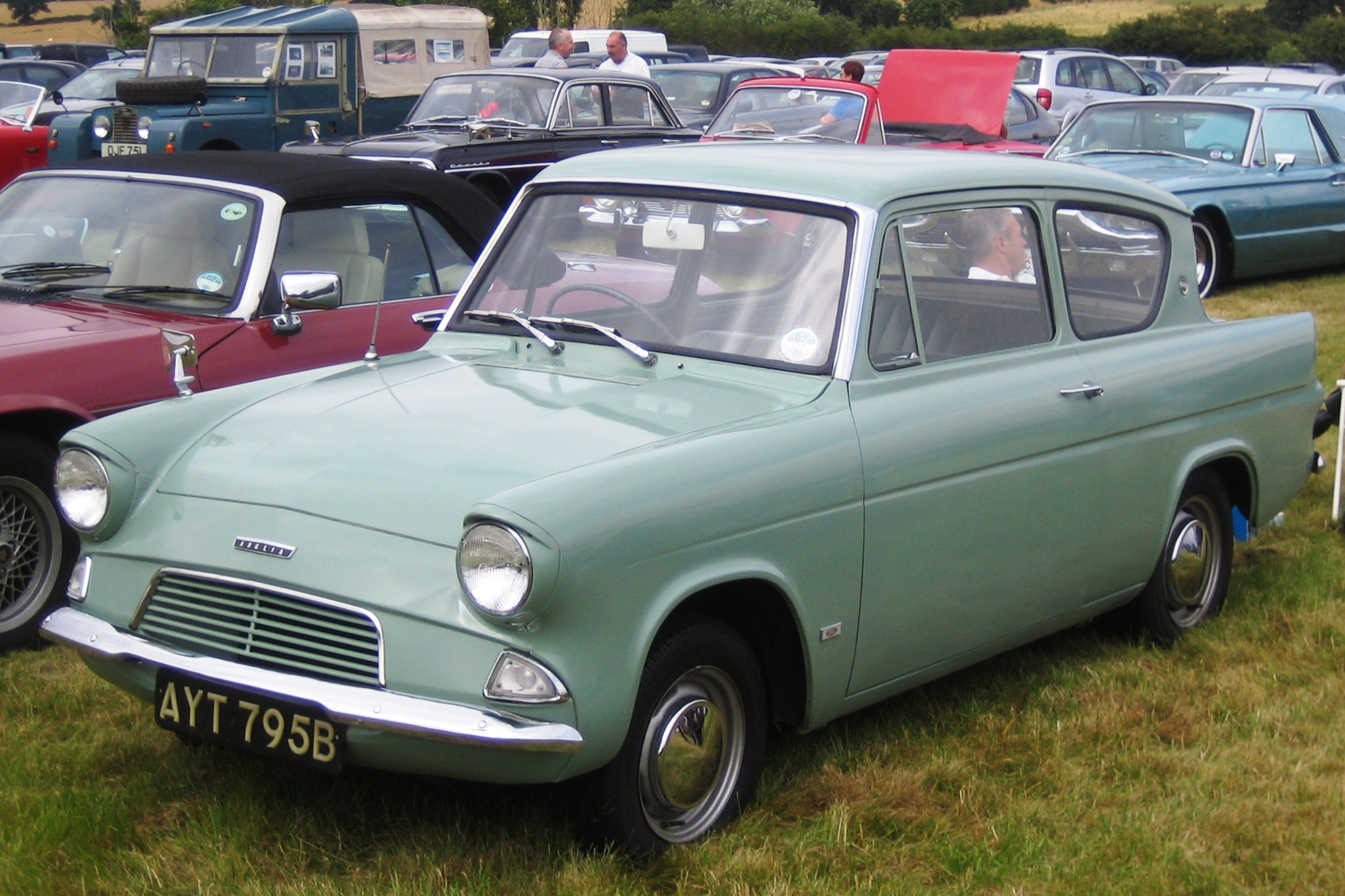 Ford Anglia registered 1964. Most surviving Ford Anglias are 'de Luxe' versions, featuring a full width chrome grill, but the more basic 'entry level' version featured a narrower front grill painted in the body color.